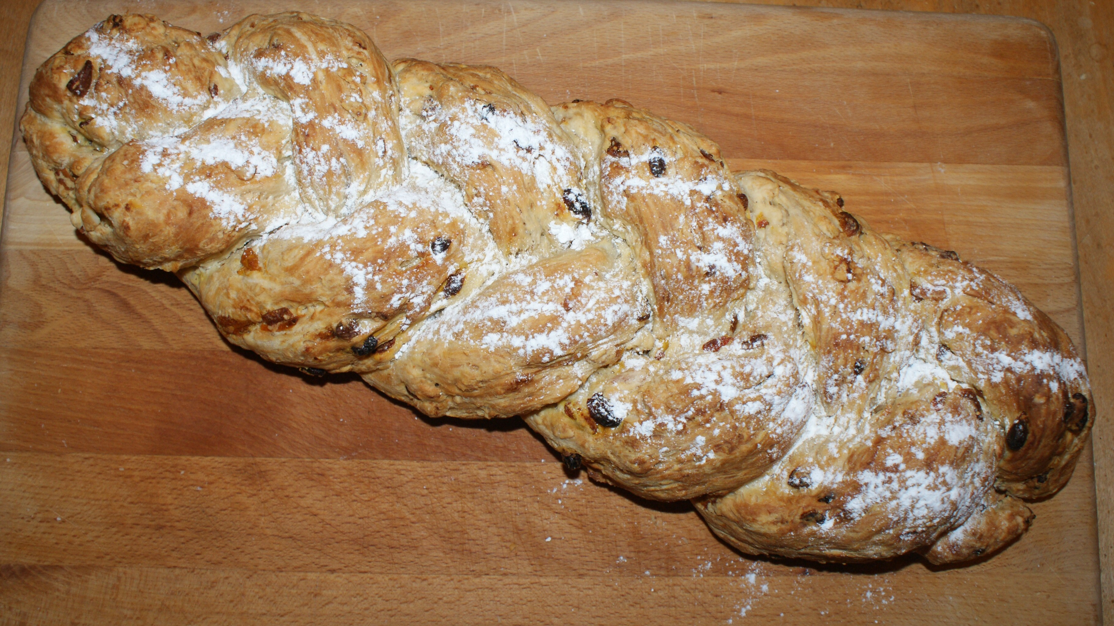 A Strietzel, a plaited Austrian Christmas loaf with butter, raisins and almond flakes.